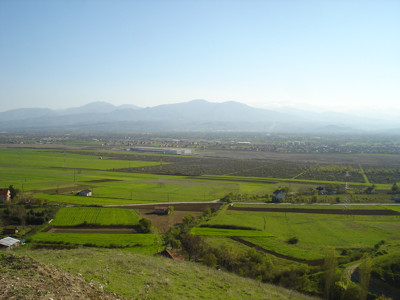 Eastern part of Skopje Plain seen from the hills above the village of Ajvatovci, near Skopje, Macedonia